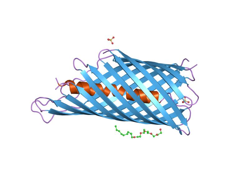 Cartoon representation of the molecular structure of protein registered with 1uyn code.